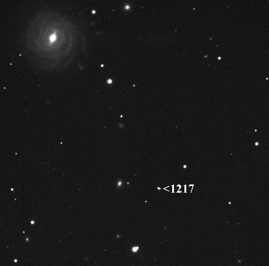 8 minute exposure of asteroid 1217 Maximiliana with a 14" telescope. 1217 Maximiliana is apparent magnitude 15.9 in this image taken at 2009-10-19 16:15 UT. Maximiliana was 1.6AU from the Earth. The small asteroid trail is caused by the telescope tracking the stars while the asteroid moved against the background stars. In the upper left is the spiral galaxy NGC 521 at magnitude 13. The star of comparable brightness just to the upper right of Maximiliana is magnitude 15.1.